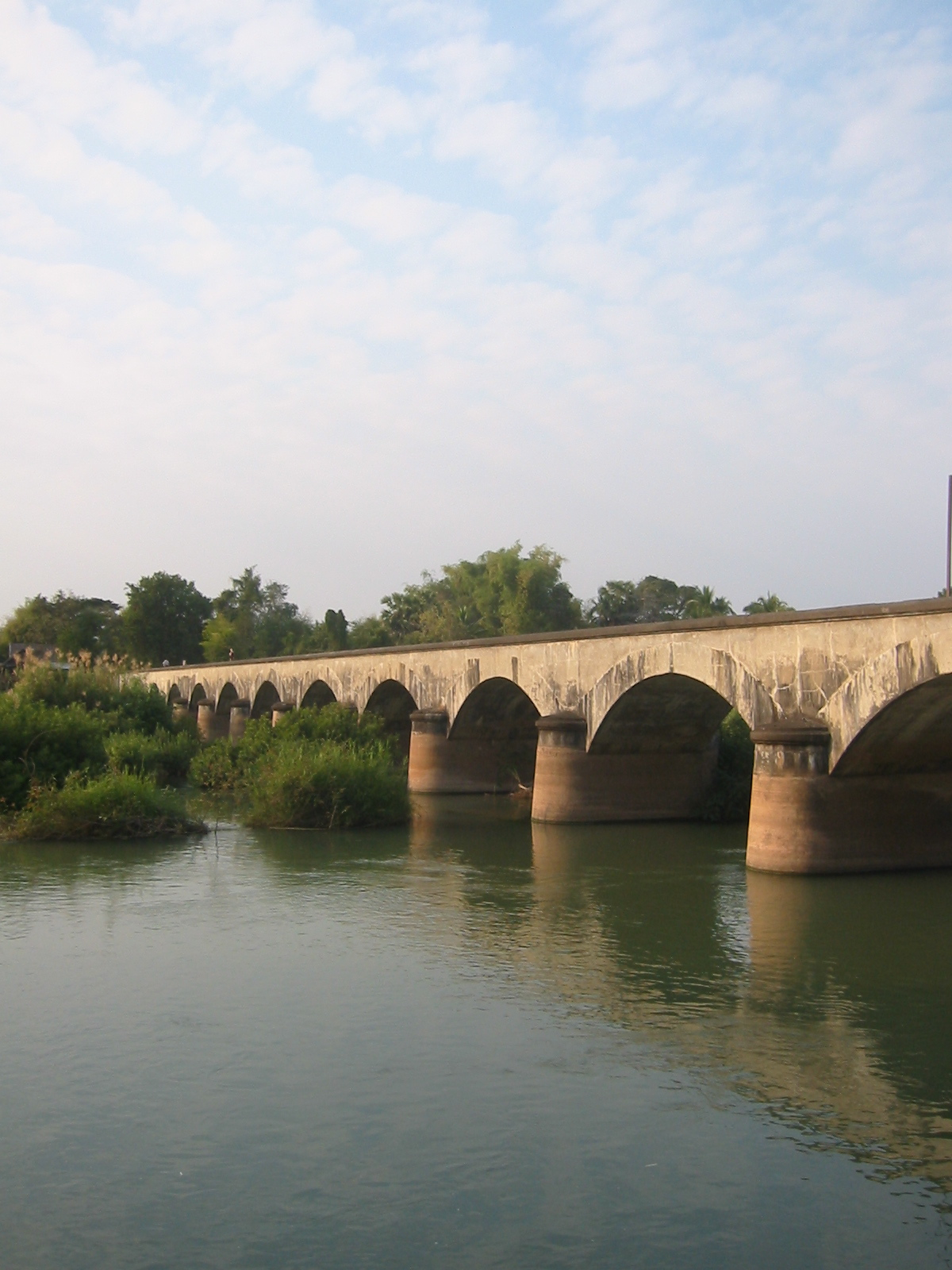 The bridge between Don Det and Don Khong, Laos.